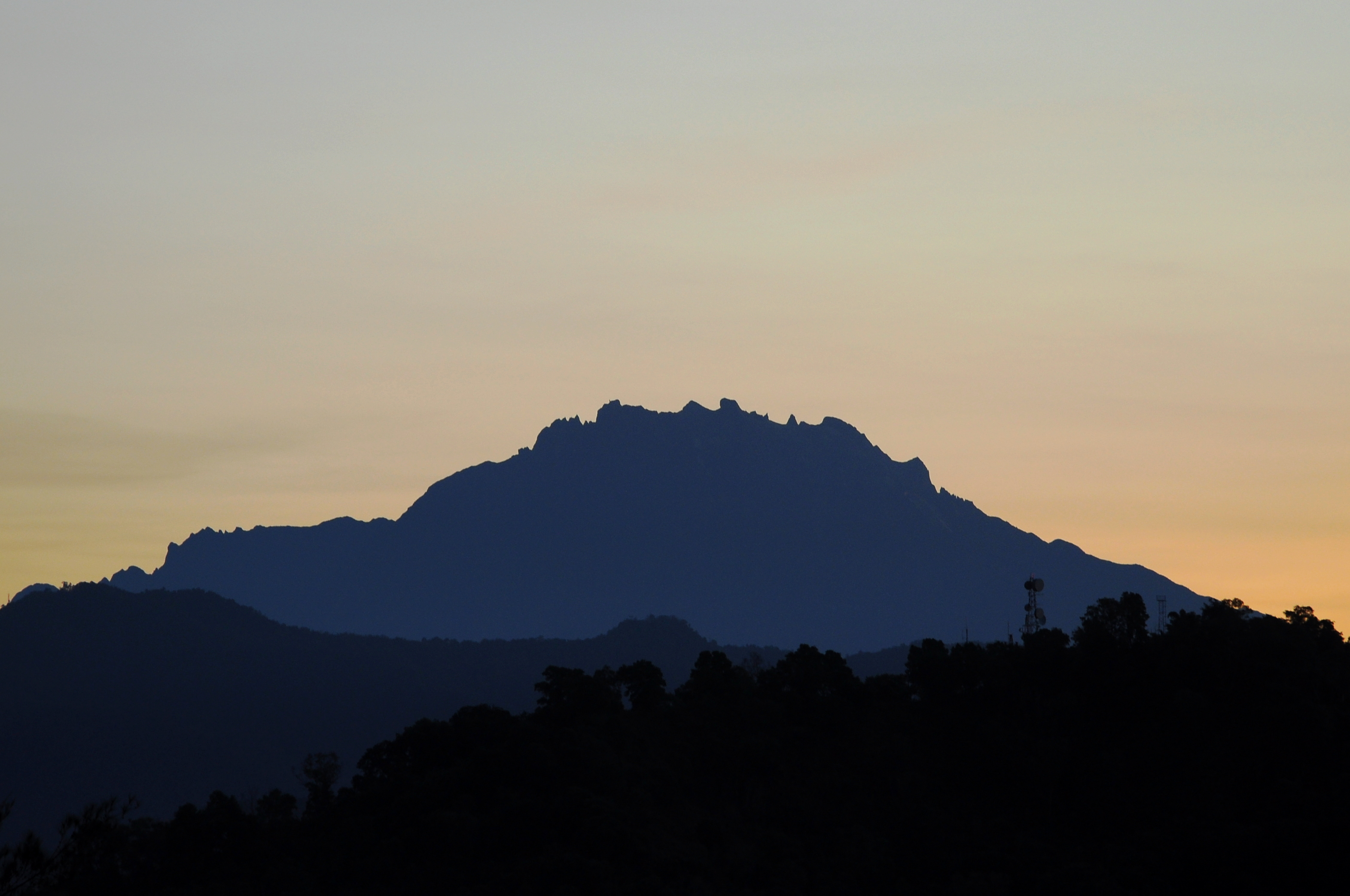 Mount Kinabalu, Sabah, Malaysia. Photo taken at sunrise from Tanjung Aru (near Kota Kinabalu). Good silhouette of the rock formations of the mountain (an icon in sabah). Monte Kinabalu, Sabah, Malasia. Foto tomada al amanecer desde Tanjung Aru (cerca de Kota Kinabalu). Buena silueta de las formaciones rocosas de la montaña (un icono de sabah).